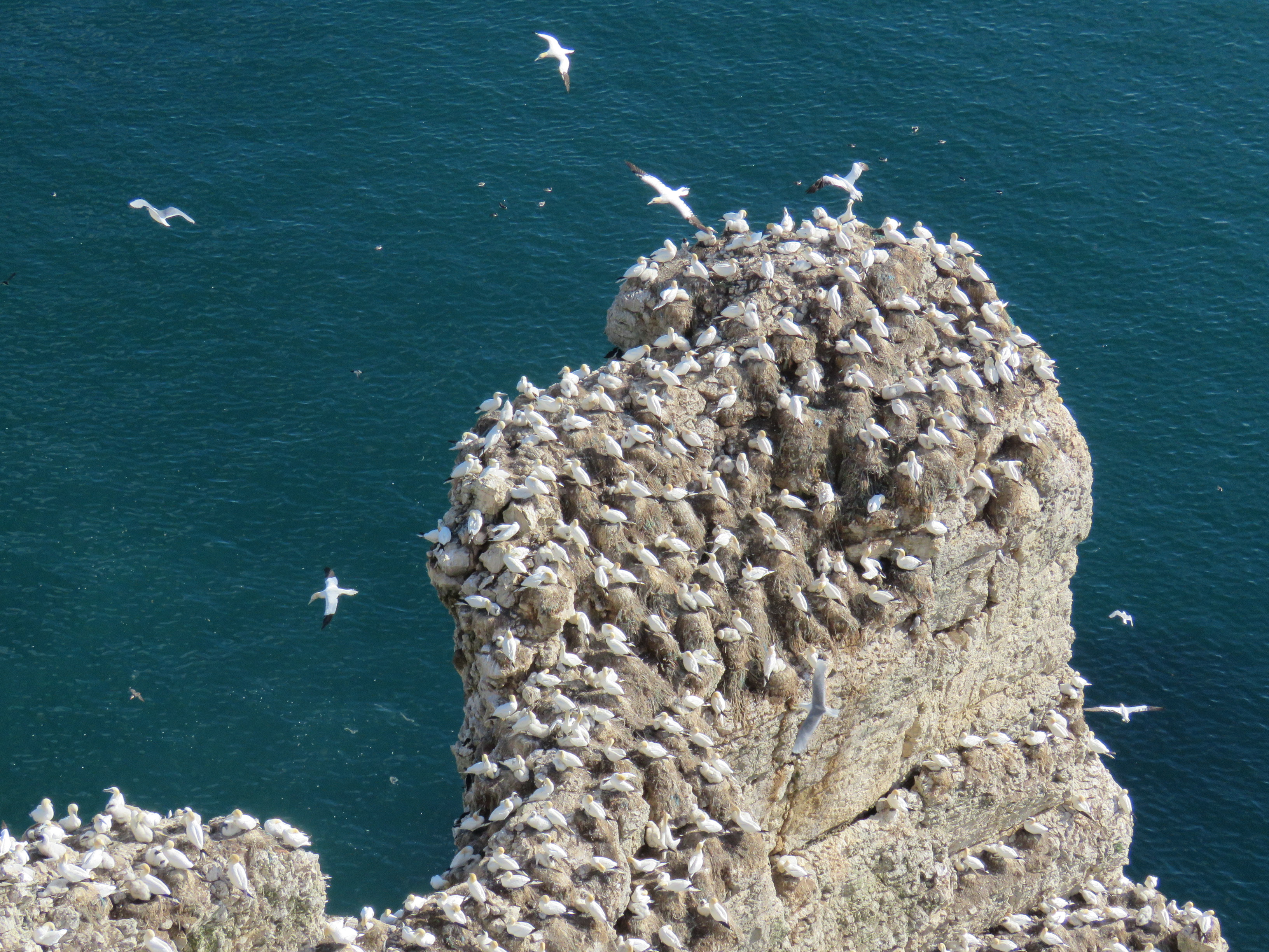 birds on rock, RSPB Bempton